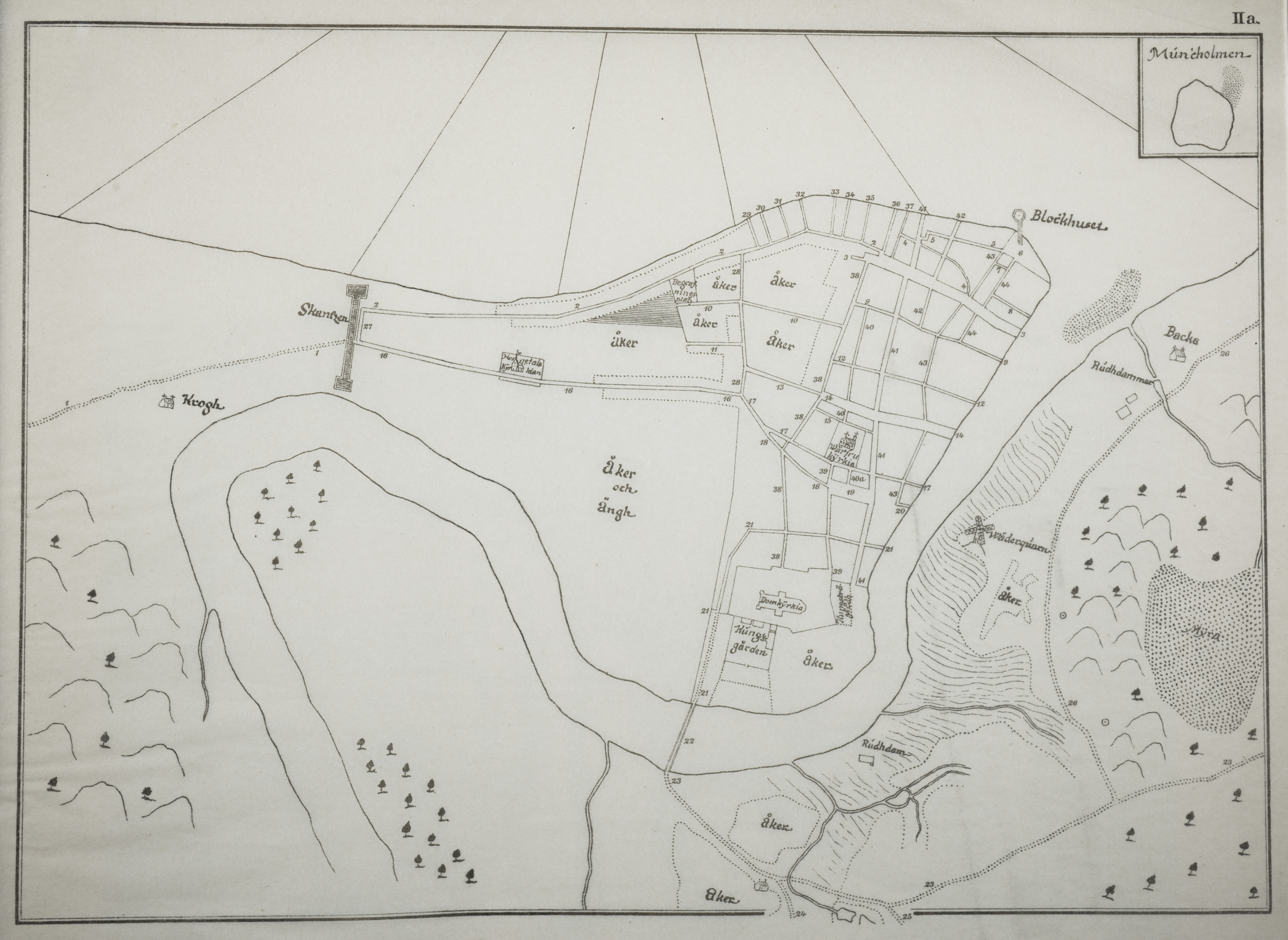 Black/white version of the oldest map existing of Trondheim, Norway, drawn by Olof Nauclér (Olaus Nauclerus) in 1658. The map (the original?) also exists in colour